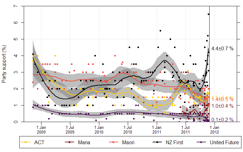 Trend lines with error regions for minor parties in polling for 2011 New Zealand general election.